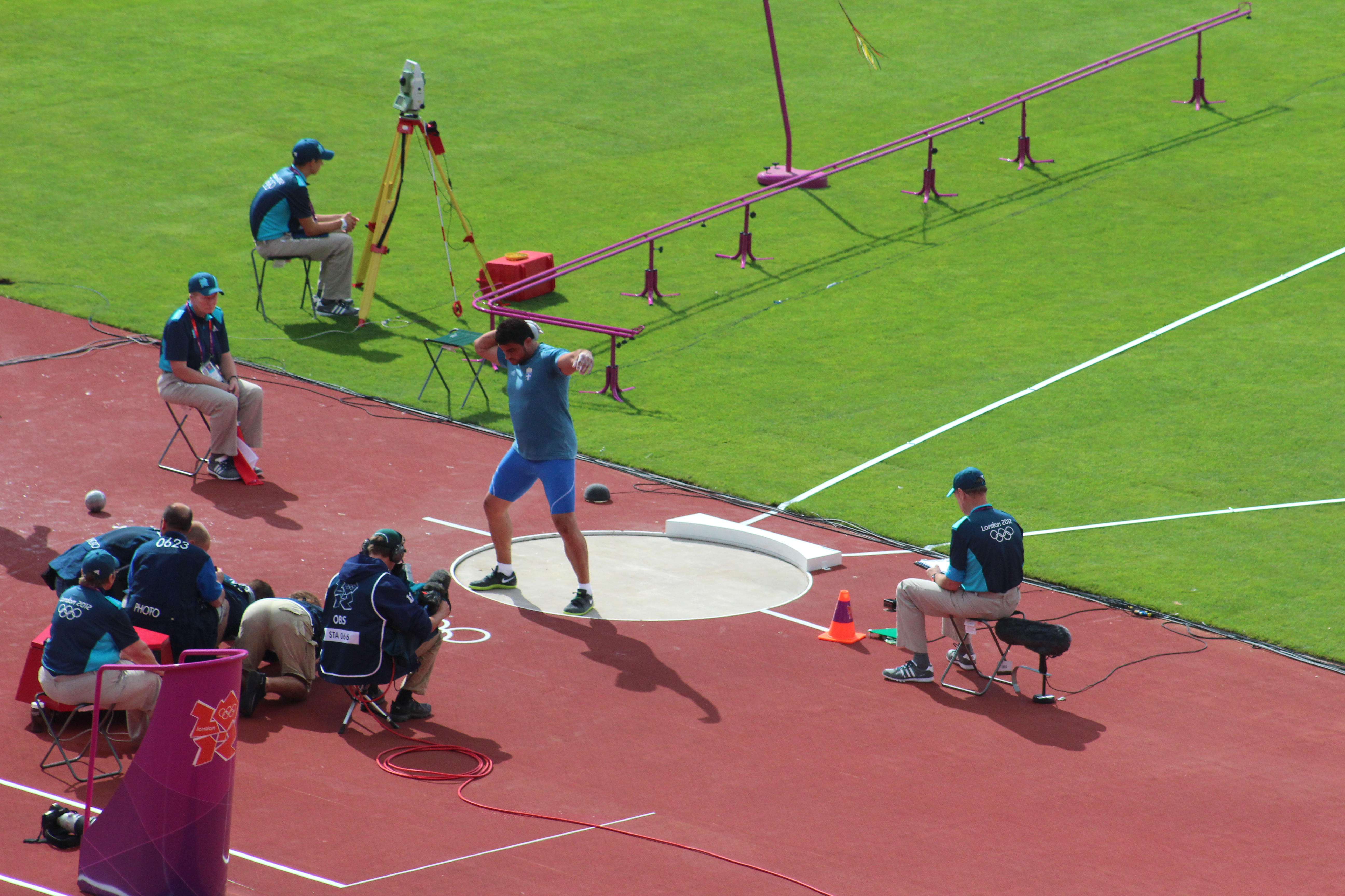 London Olympics 2012 - Men's shot put, Mihail Stamatoyiannis